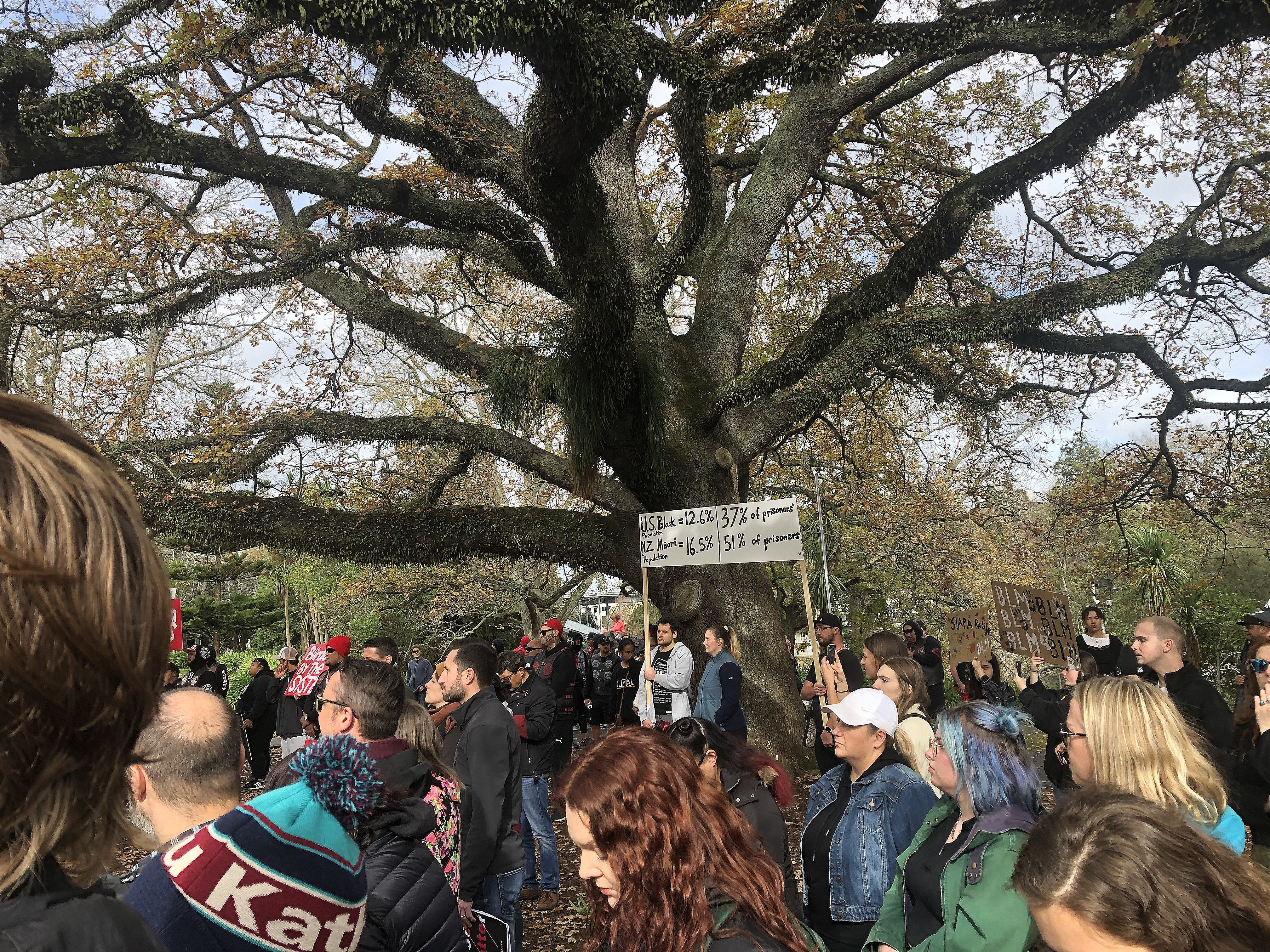 US black 12.6% of population, 37% of prisoners. NZ Maaori 16.5% and 51%